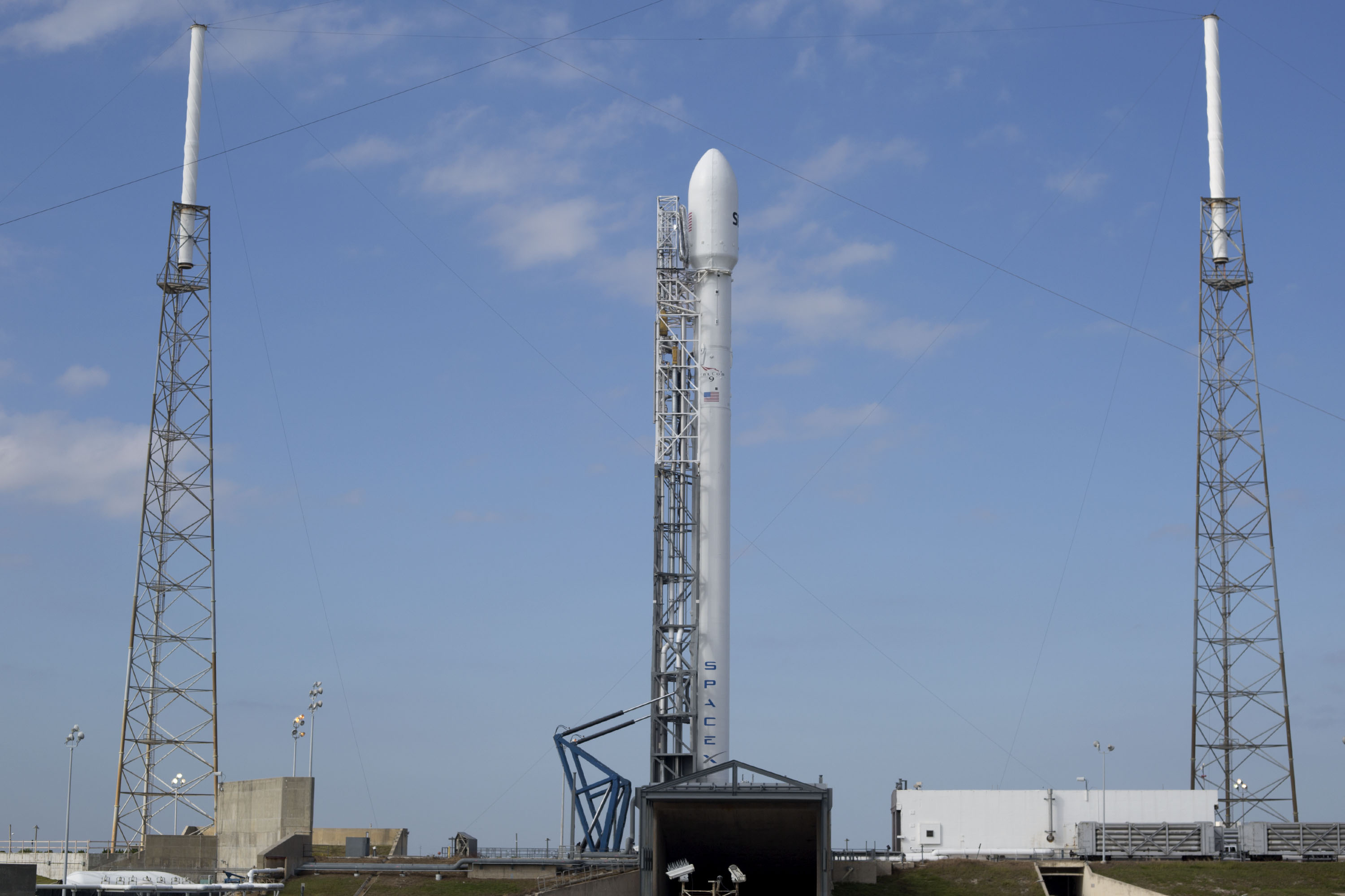 Falcon 9 vertical at Cape Canaveral AFS SLC-40 before the launch of the SES-8 satellite.